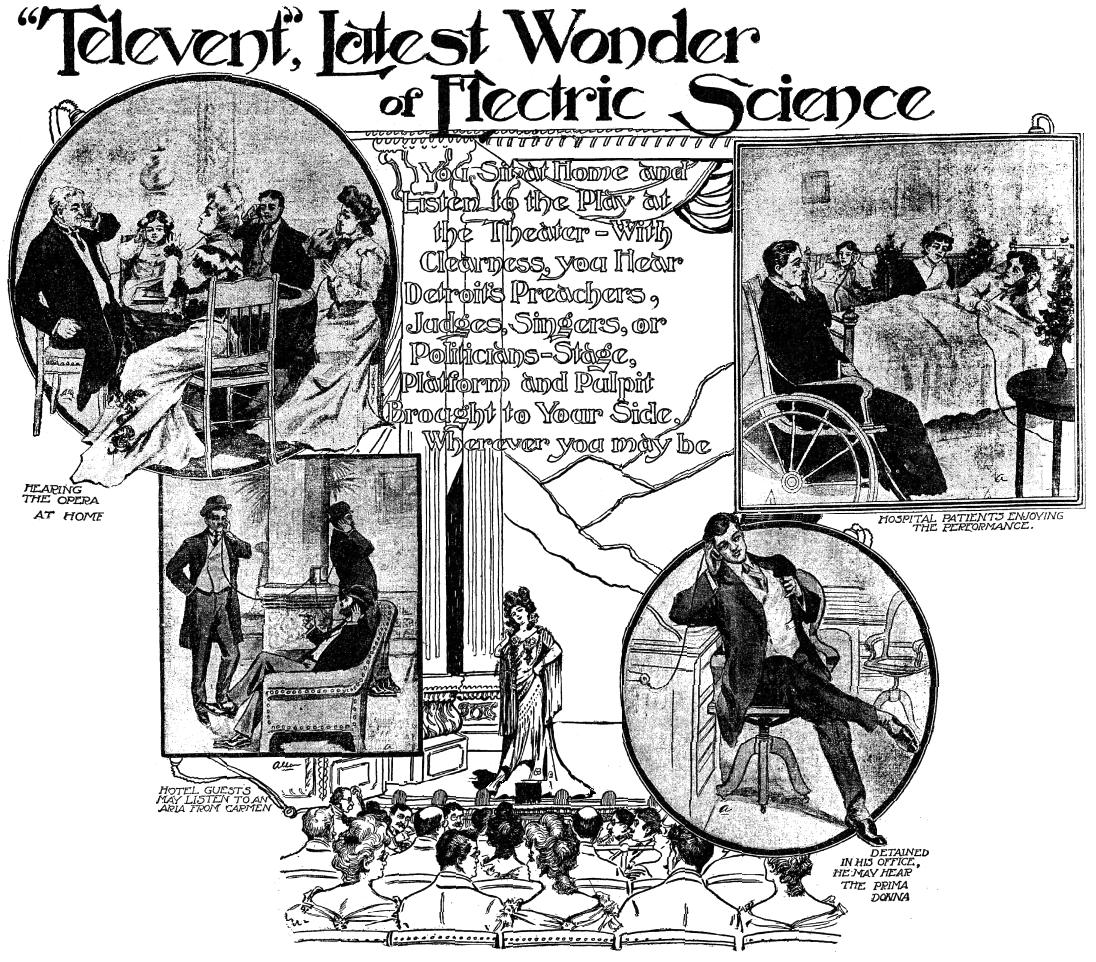 Promotional illustration of individuals listening at home and work, and in a hospital and at a hotel, to an opera, over the proposed Tellevent system Tags: Telephone newspapers, Information by telephone, Telecommunications systems, Telephony